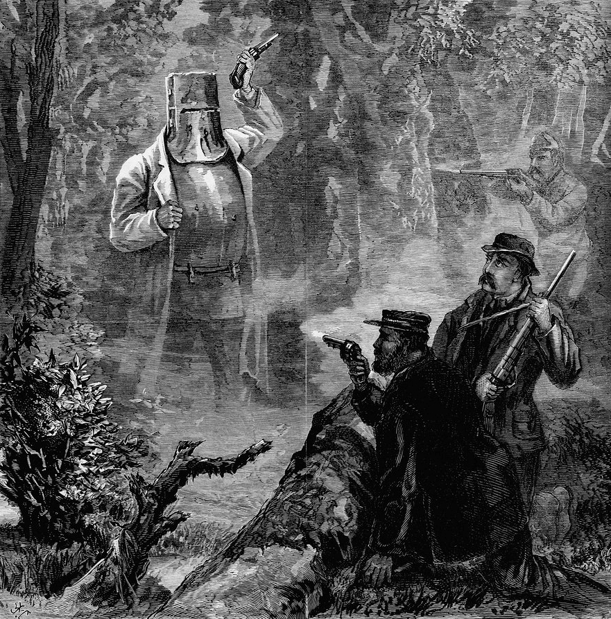 "A strange apparition: Ned Kelly's Fight and Capture", wood engraving, printed in The Age.